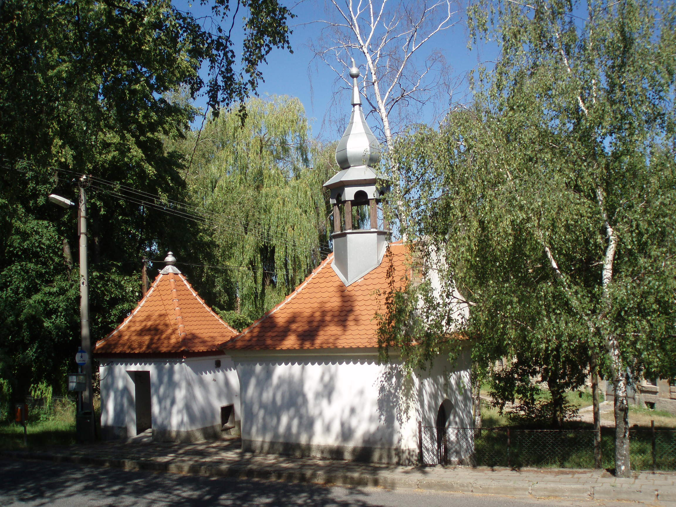 Chapel in Malnice